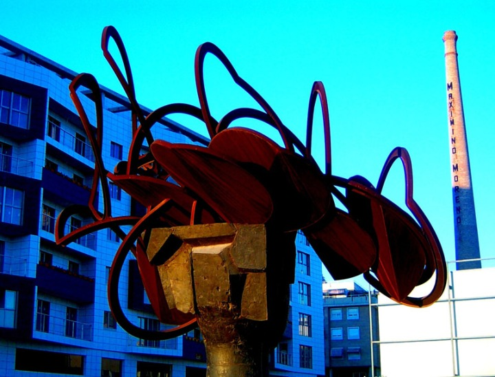 Plaza Enclave de la Muralla y Dama de Molina